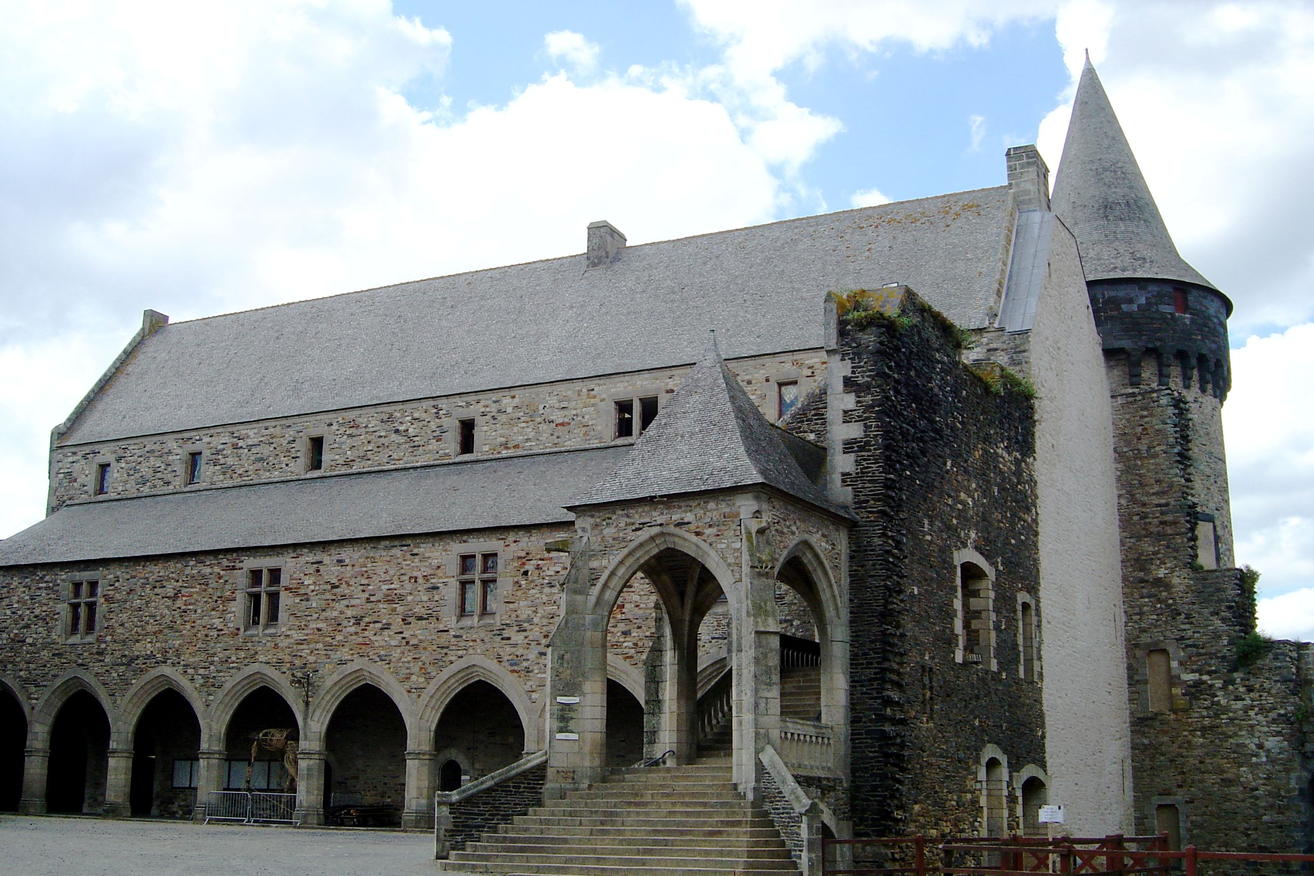 Castle of Vitré, Vitré (France). Nowadays, the town hall of Vitré is inside the castle walls, in a building that was rebuilt in 1912 by following the plans of the medieval house.